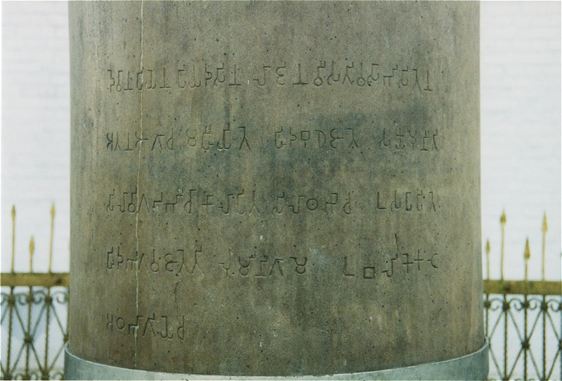 The pillar set up by Emperor Ashoka at Lumbini, Nepal, birthplace of the Buddha. The inscription granted favouarble tax allowances on the people of Lumbini, in honour of the Buddha.